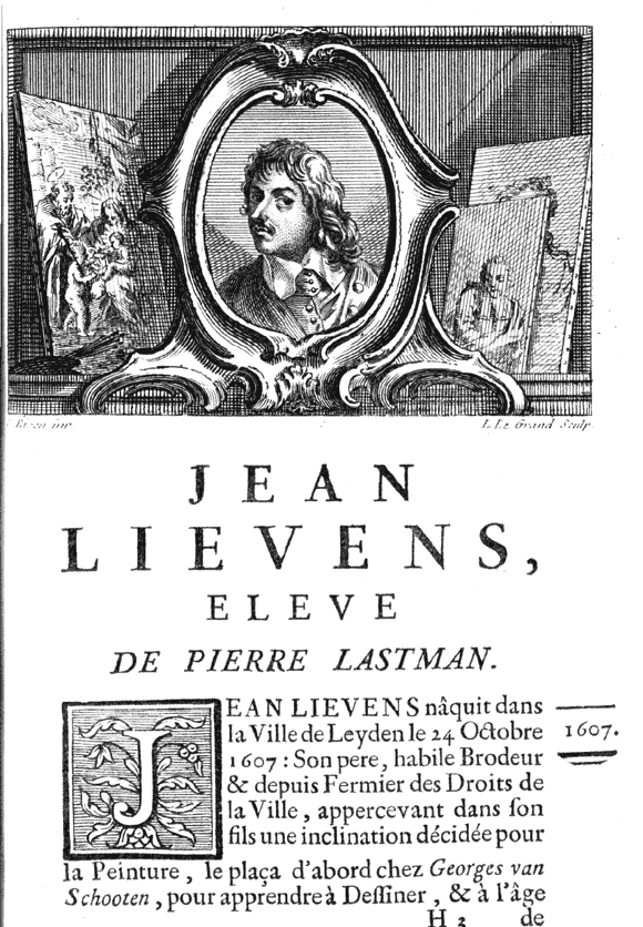 Book 2 of 4-volume painter biographies by Jean-Baptiste Descamps